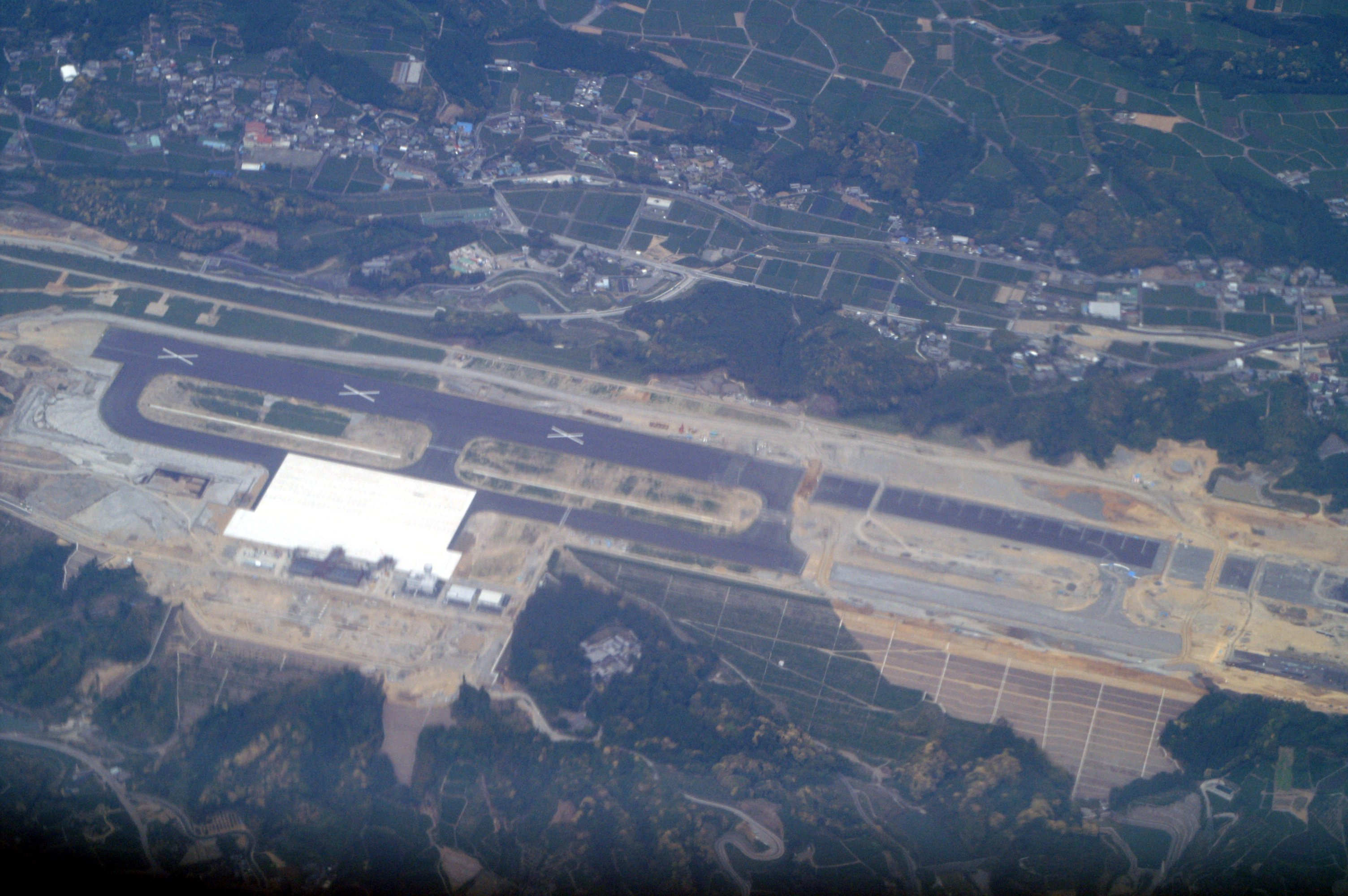 Shizuoka Airport Makinohara City and Shimada City, Shizuoka Prefecture.